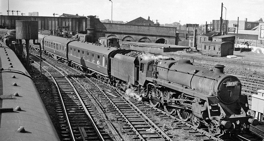 Holyhead - Manchester express entering Chester General Station. View NW, from the footbridge at the west end of Chester General - again - (see also SJ4167 : Express from North Wales entering Chester and SJ4167 : Chester General Station: a 1962 Summer Saturday). Here BR Standard 5MT 4-6-0 (with Caprotti valve-gear) No. 73140 is heading the 12.20 Holyhead to Manchester (Exchange) express.